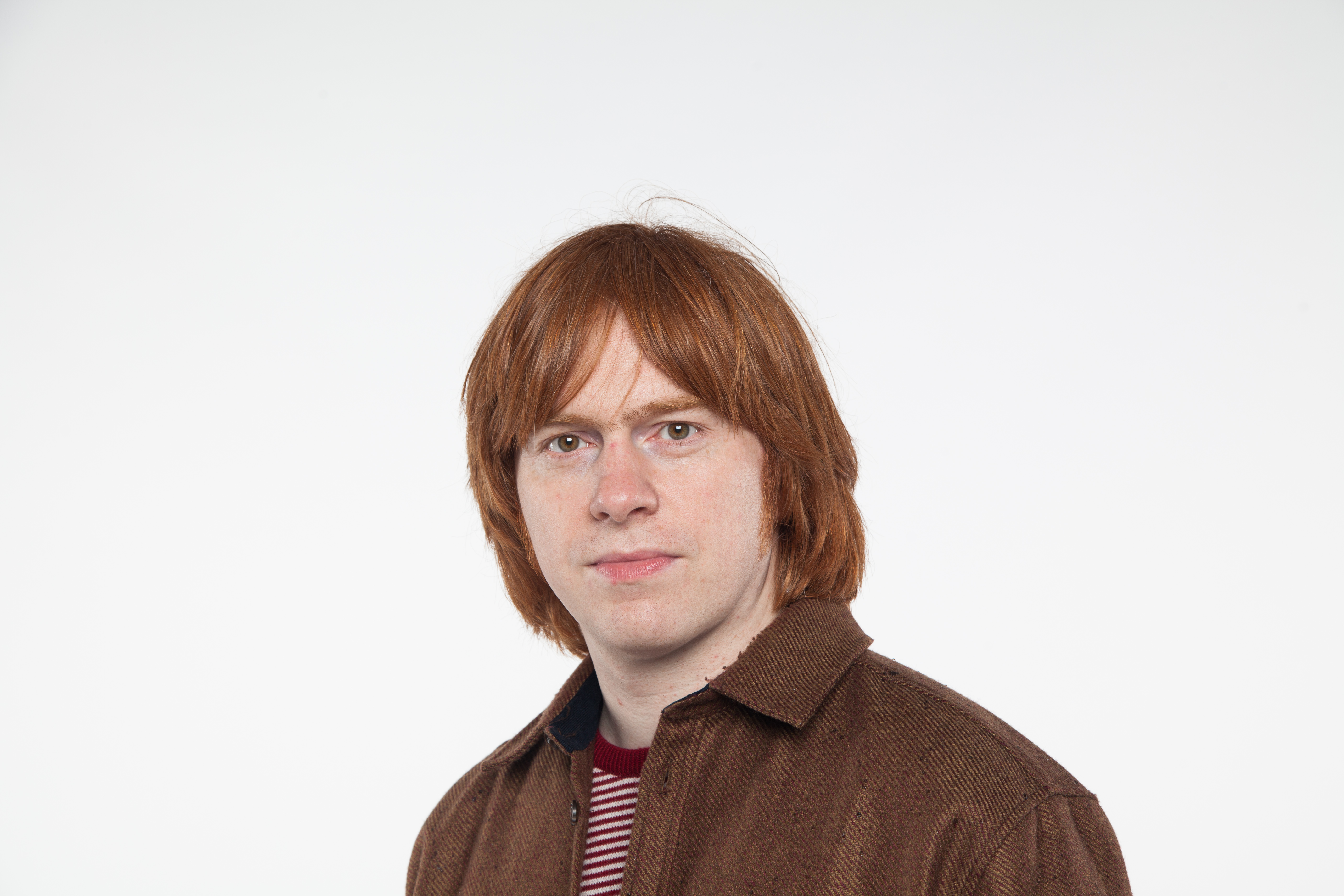 Carwyn Ellis. A Welsh band.